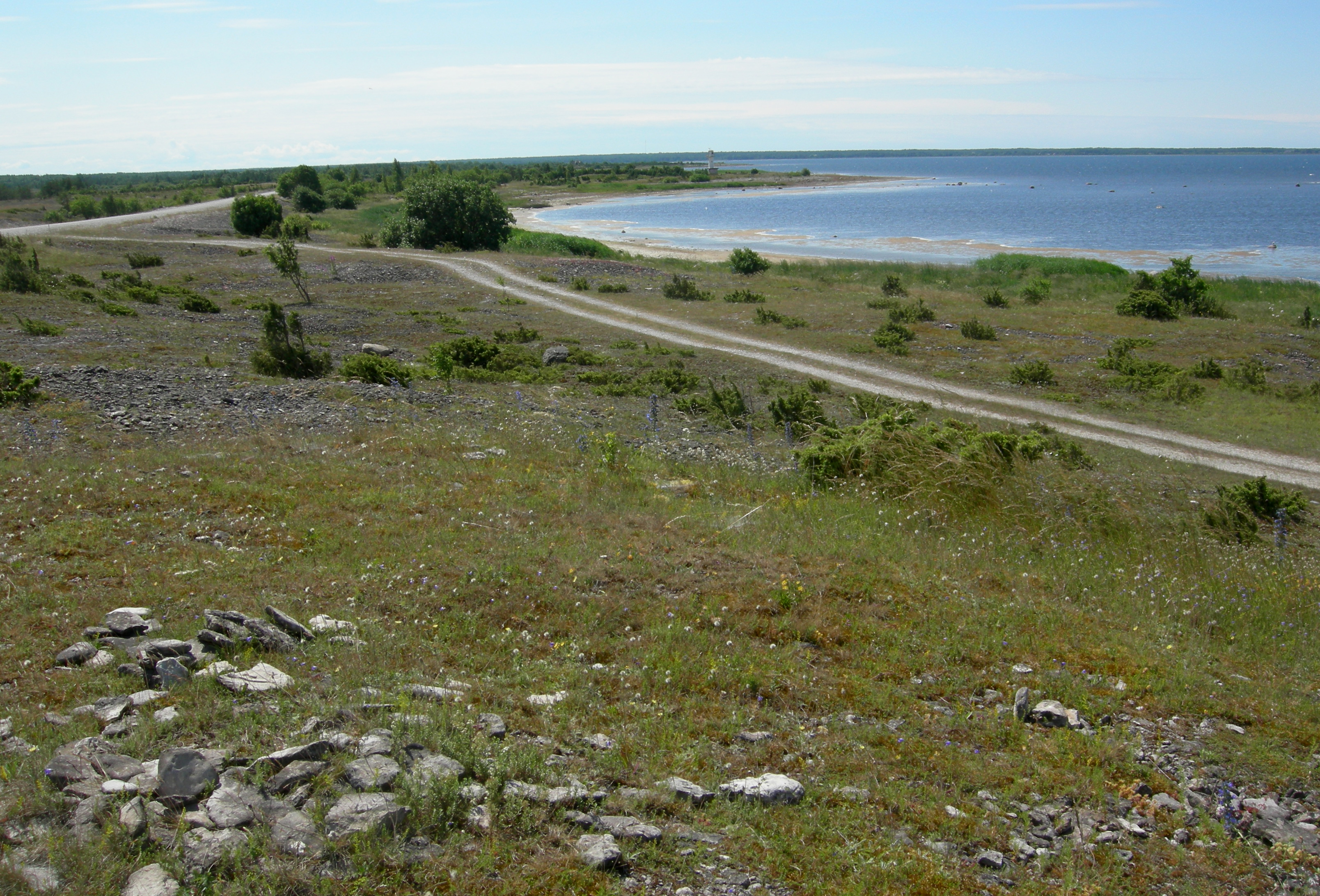 NW Sõrve Peninsula Beach, Saaremaa, Estonia.